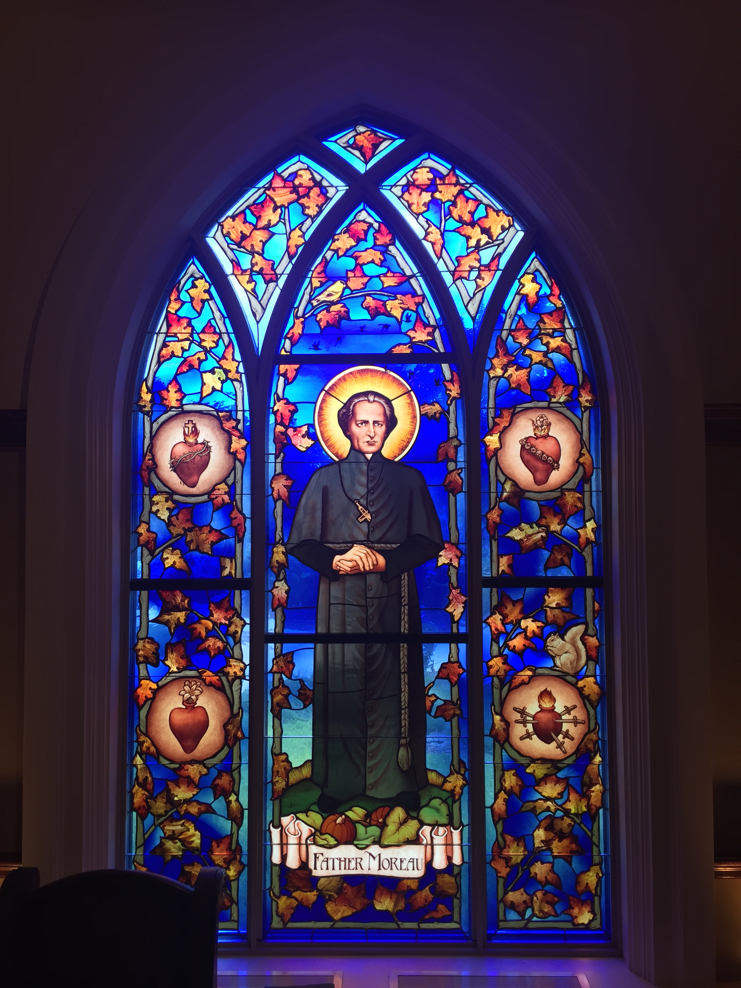 Campus of the University of Notre Dame